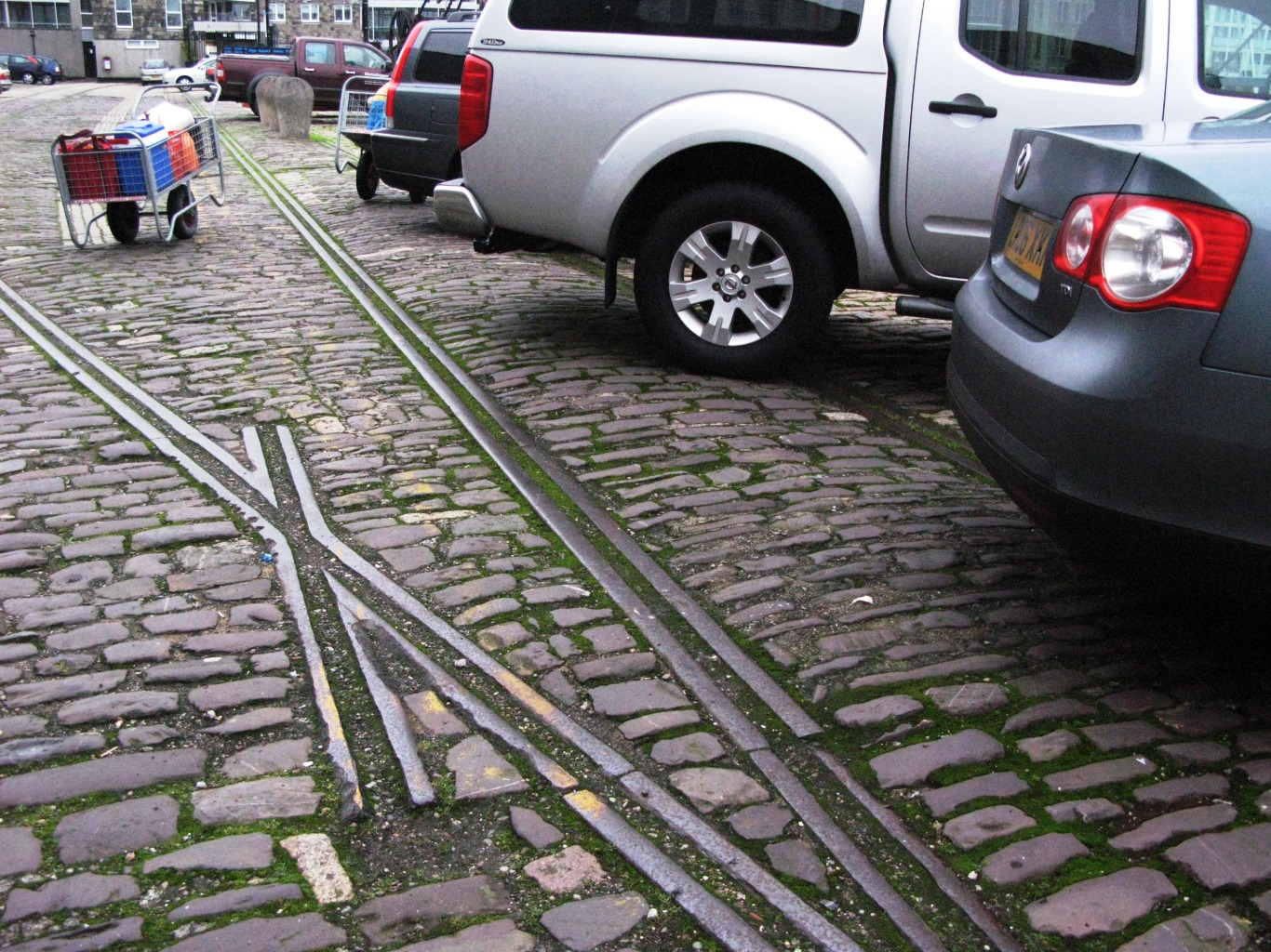 Disused, mixed 7ft 0.25in and 4ft 8.5in gauge railway tracks on Sutton Wharf, Sutton Pool, Plymouth, Devon, England